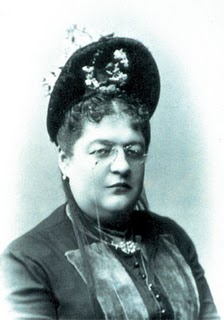 Photo of Clorinda Matto de Turner